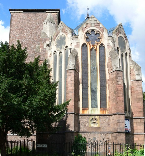 The Old Church of Saint Paul's, Leicester Located at the corner of Glenfield Road and Kirby Road.